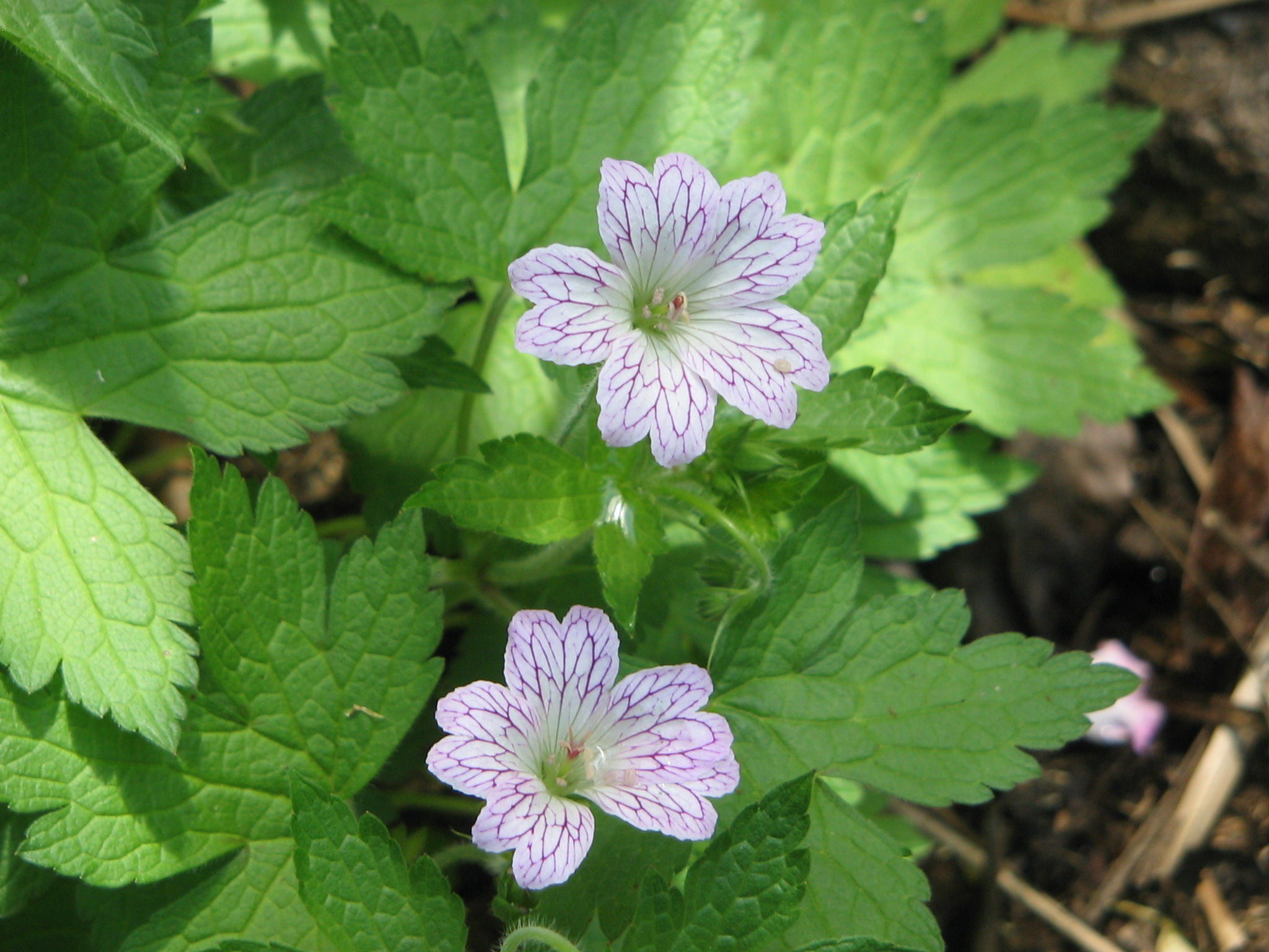 Geranium versicolor